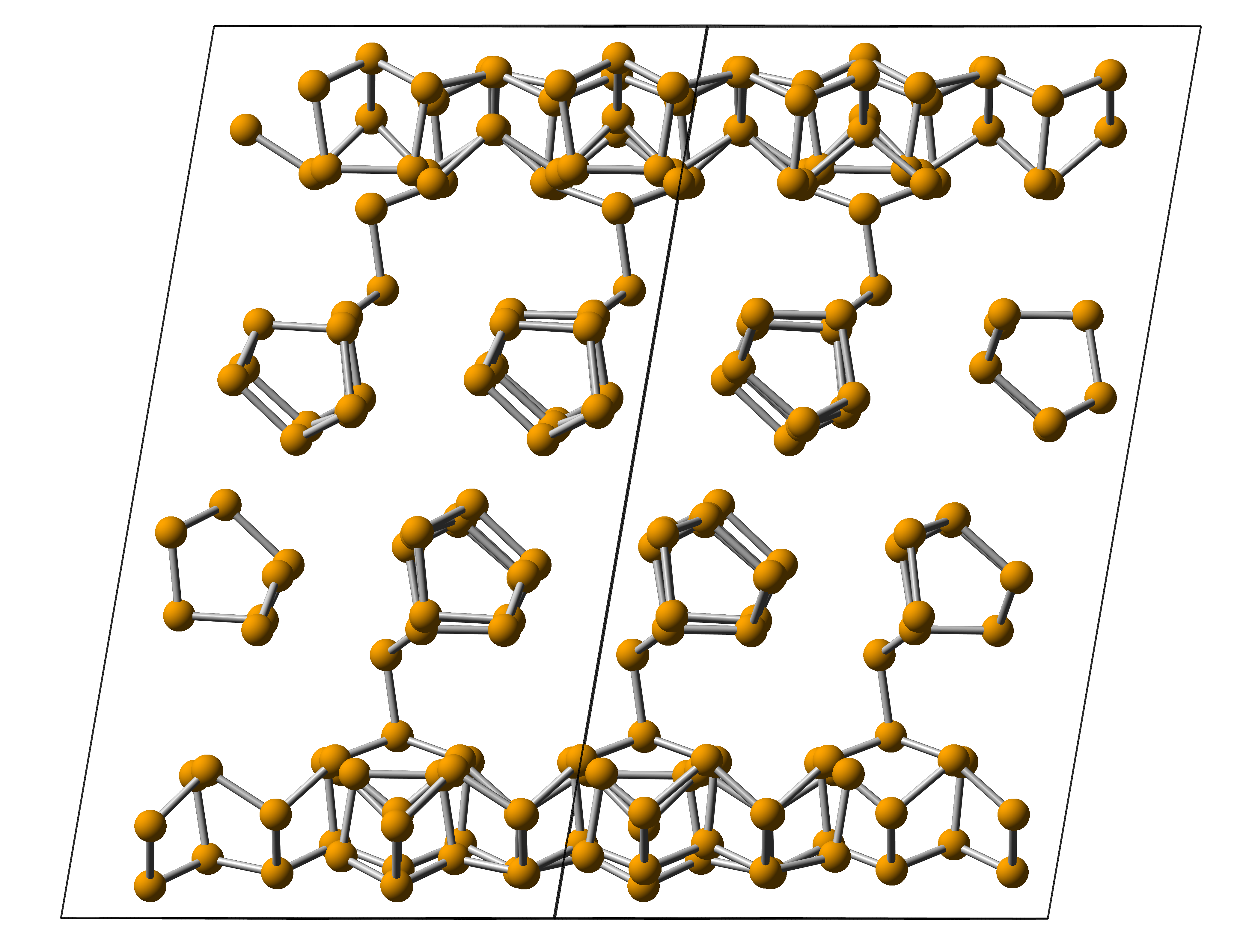 This unit cell contains 84 atoms of phosphorus with the space group P2/c.